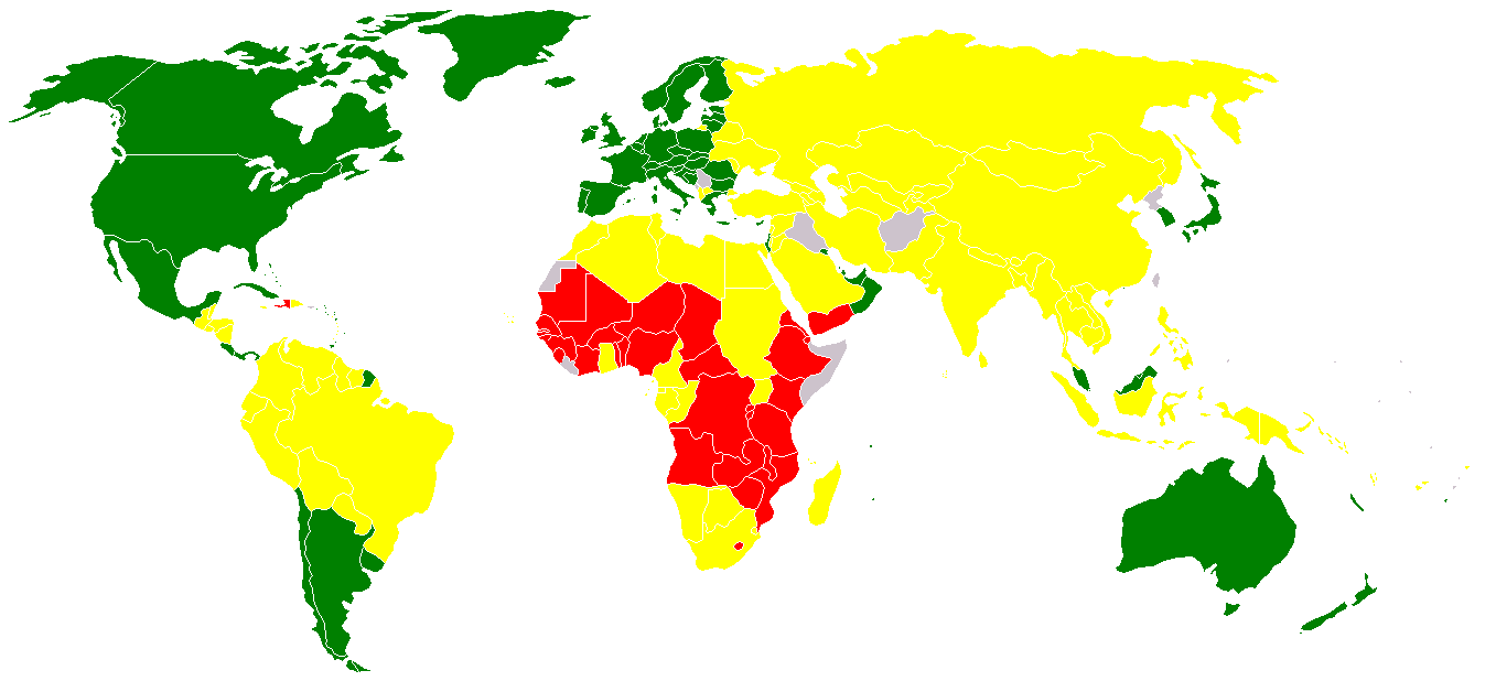 HDI ranking (medium-yellow,high-green , low-red) per 2006 stats, according to List of countries by Human Development Index; High human development Medium human development Low human development Unavailable